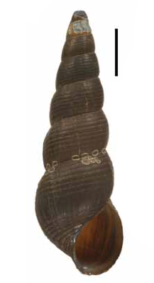 Photo of an apertural view of a holotype shell of Tylomelania baskasti. Holotype MZB Gst. 12.108 (loc. 71-02), scale bar is 5 mm.